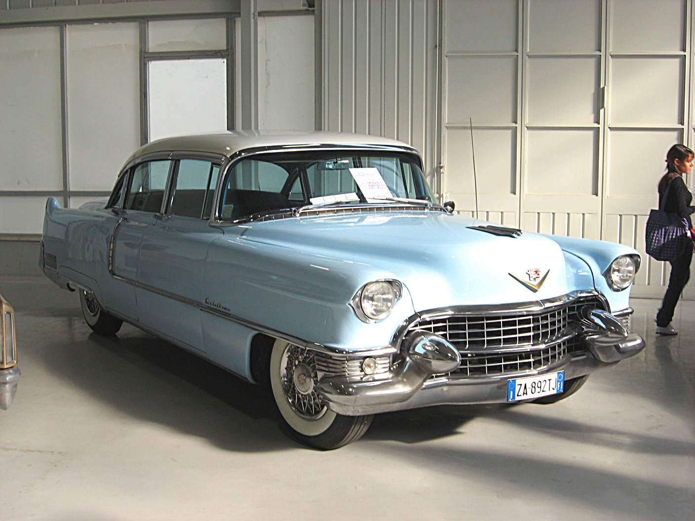 Subject:1955 Cadillac Fleetwood Author:Luc106 Date:March 15th, 2007 Event:Old Timer Show 2008 Place/Country: Forlì, Italy I release all rights in the public domain.